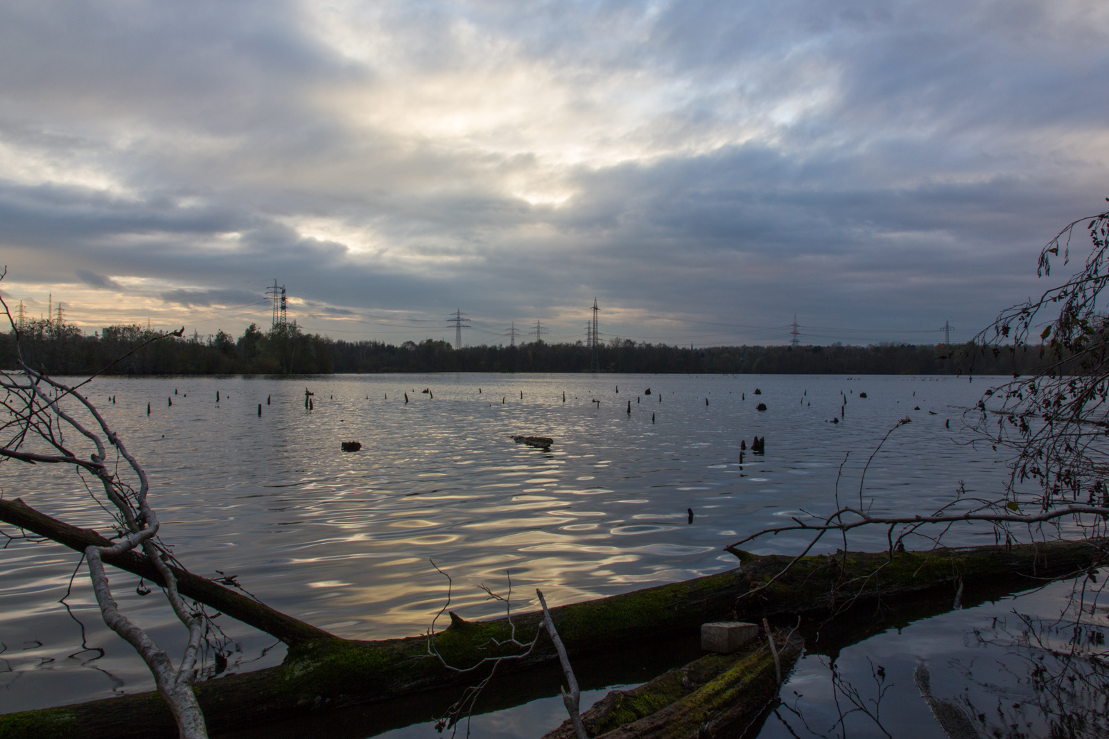 View on the lake in the nature reserve Hallerey in Dortmund (Germany) from the northeast shore in the evening.